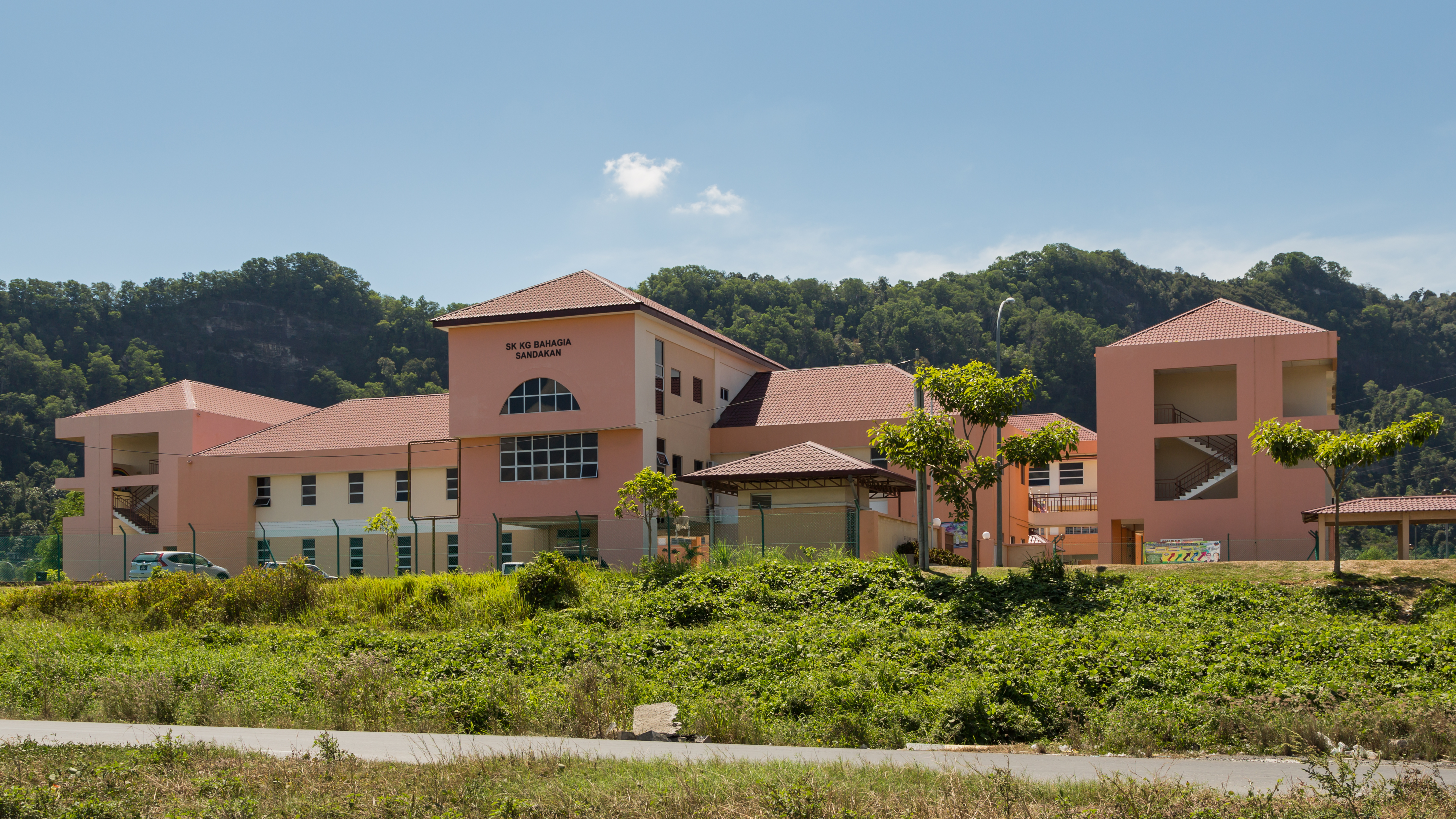 Kipaku, Sabah, Malaysia: Primary school SK Kg Bahagia Sandakan.